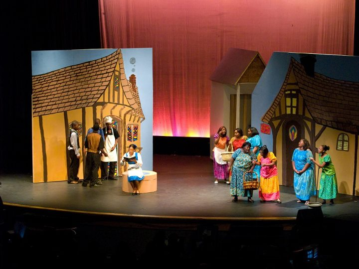 Hillside drama dept